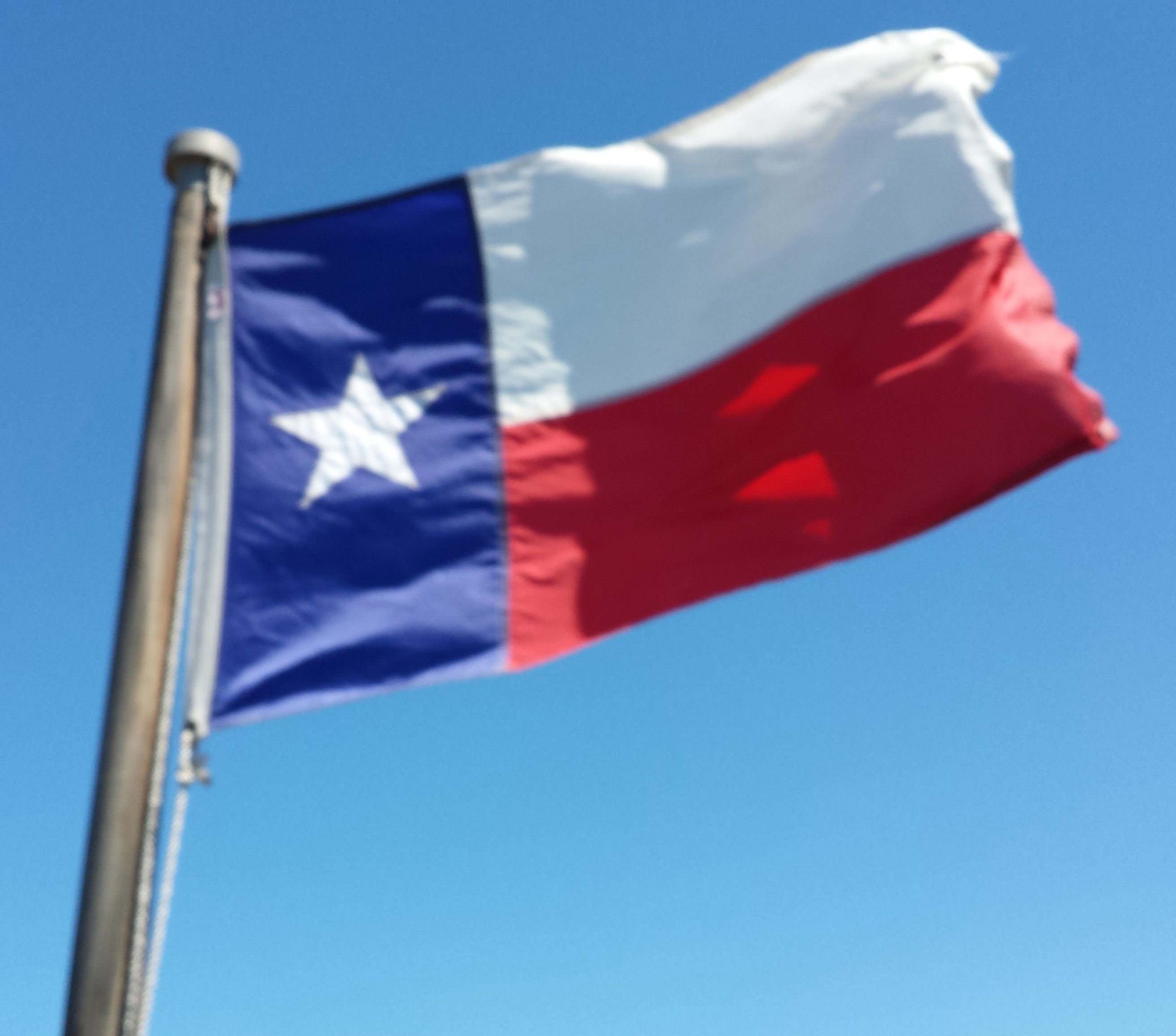 Lone Star Flag, flying on the Houston Ship Channel tour boat, on April 2, 2016.